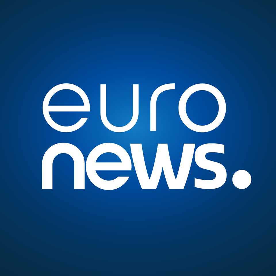 This is an alternative logo of euronews. since May 17th 2016.